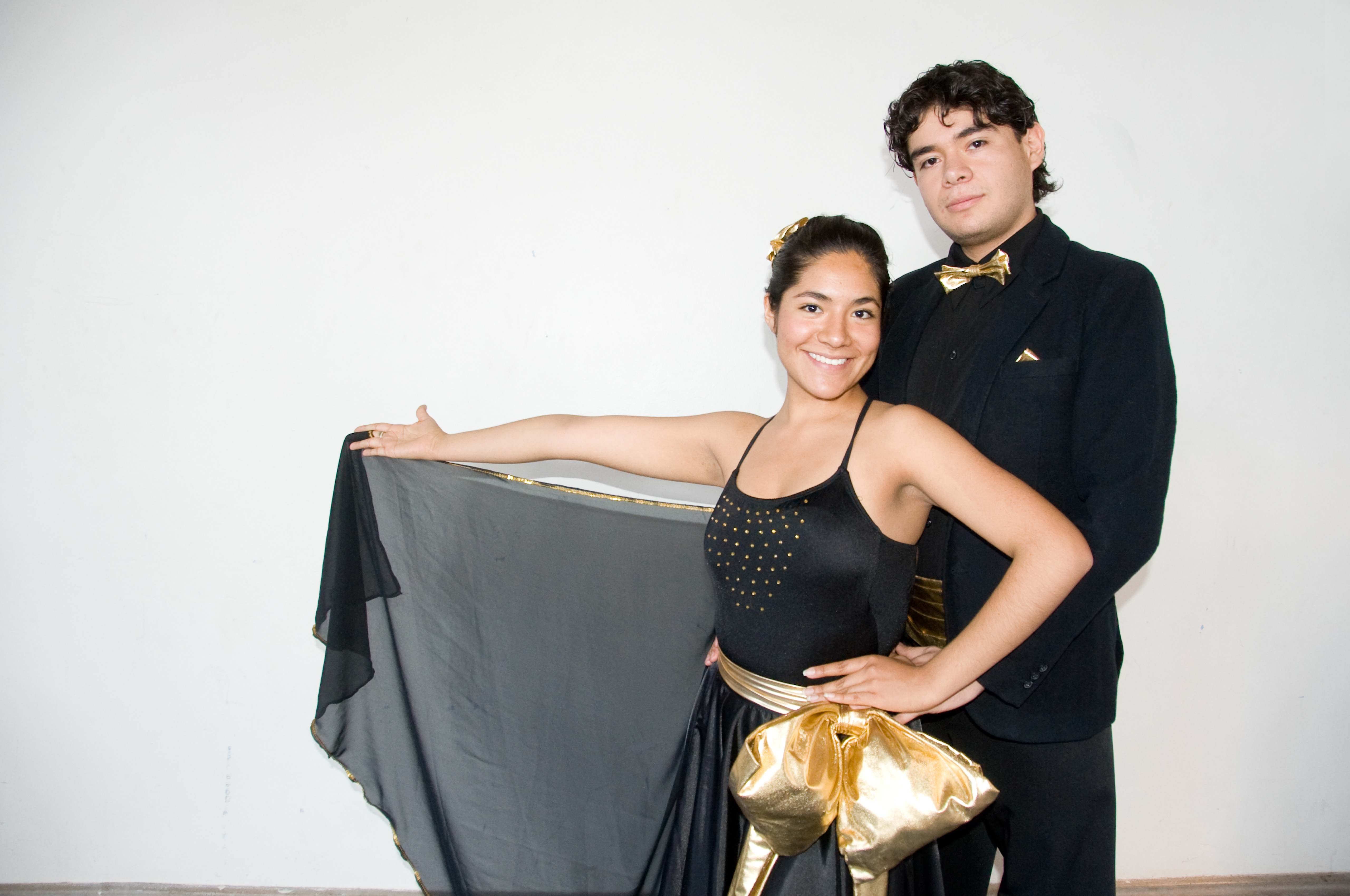 "Danzón" dancers from the representative group at ITESM, CCM